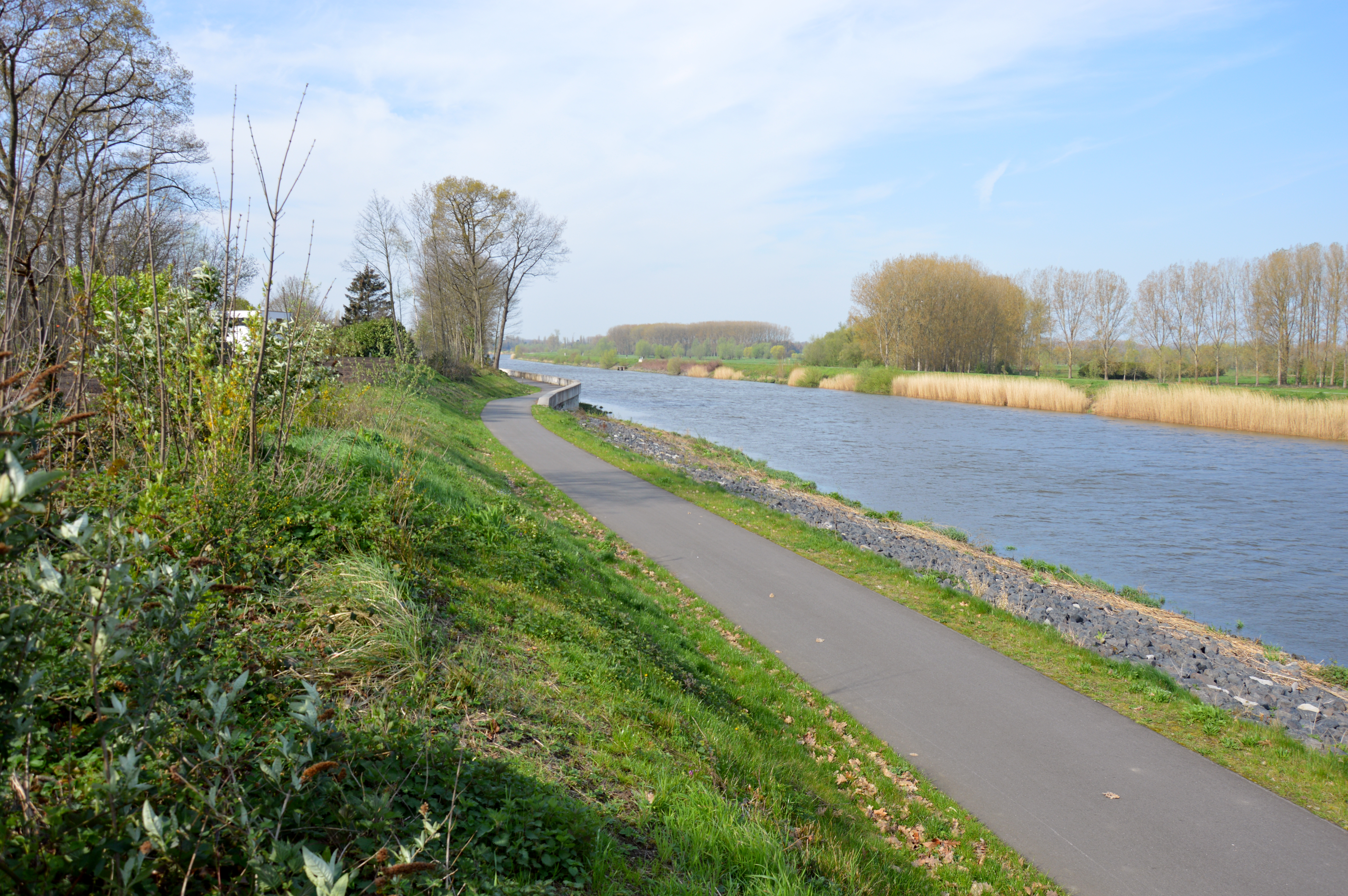 Towpath between Schellebelle and Wetteren